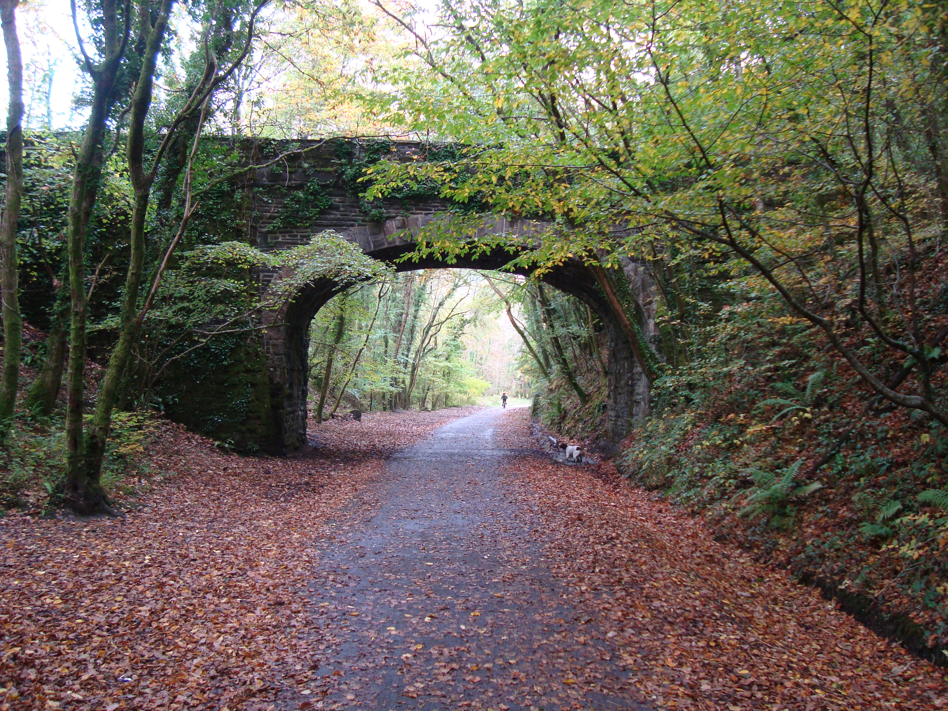 cycle track in plymbridge woods